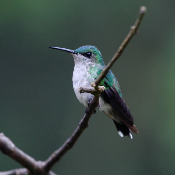 White-vented Violetear (Female) at São Luiz do Paraitinga - SP - Brazil